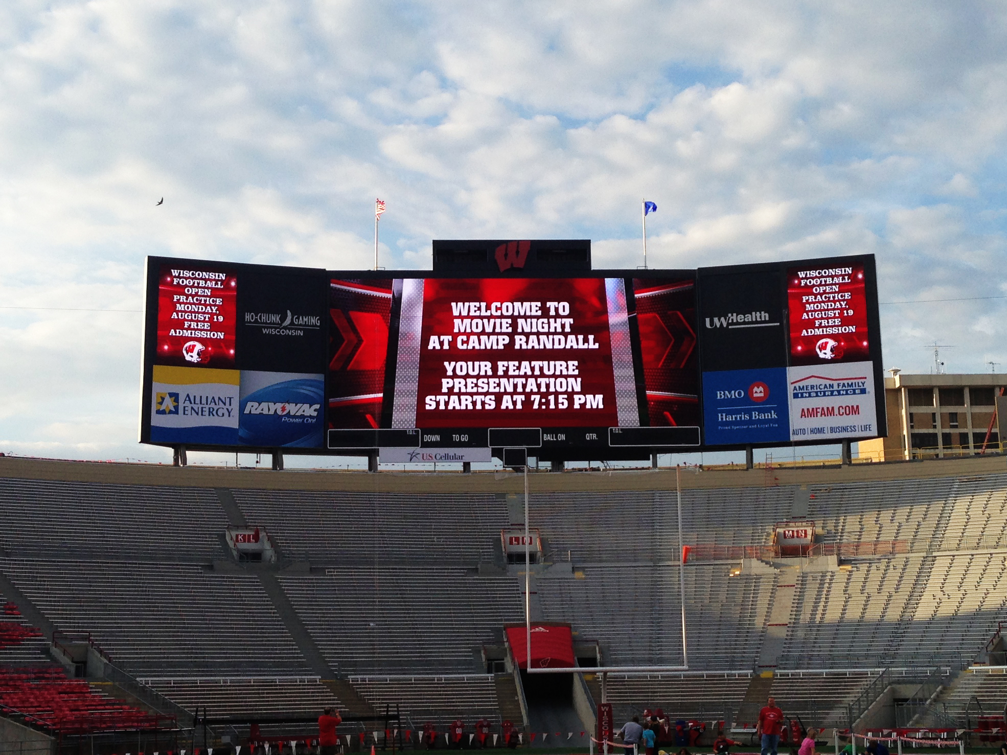 Camp Randall Scoreboard as seen during the first annual Camp Randall movie night on 08/15/2013.